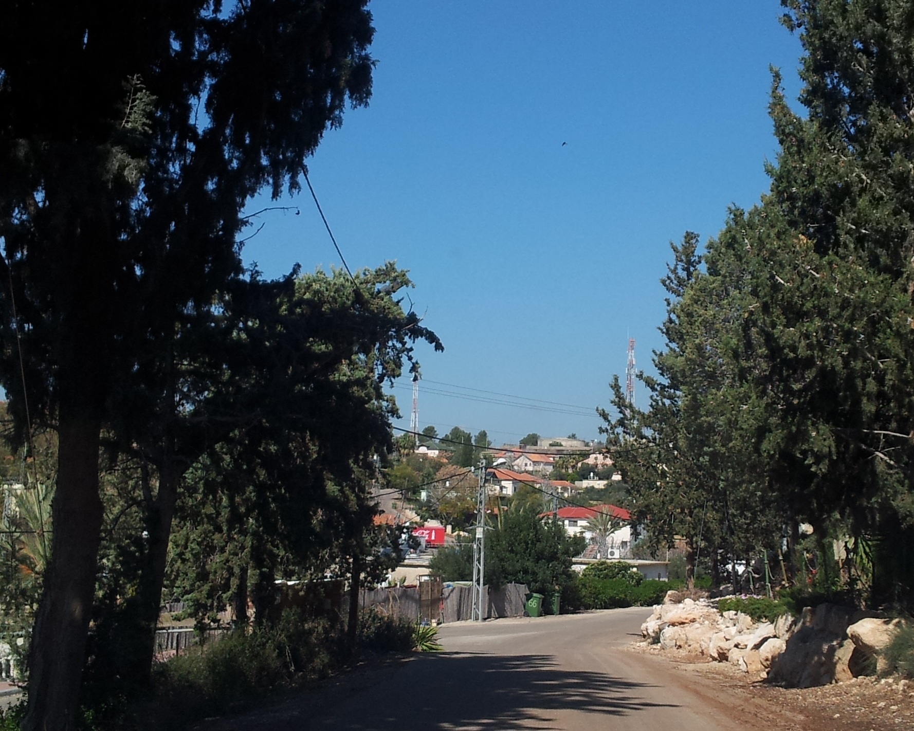 Street in moshav Aderet